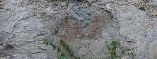 pinturas rupestres de la Fenellosa